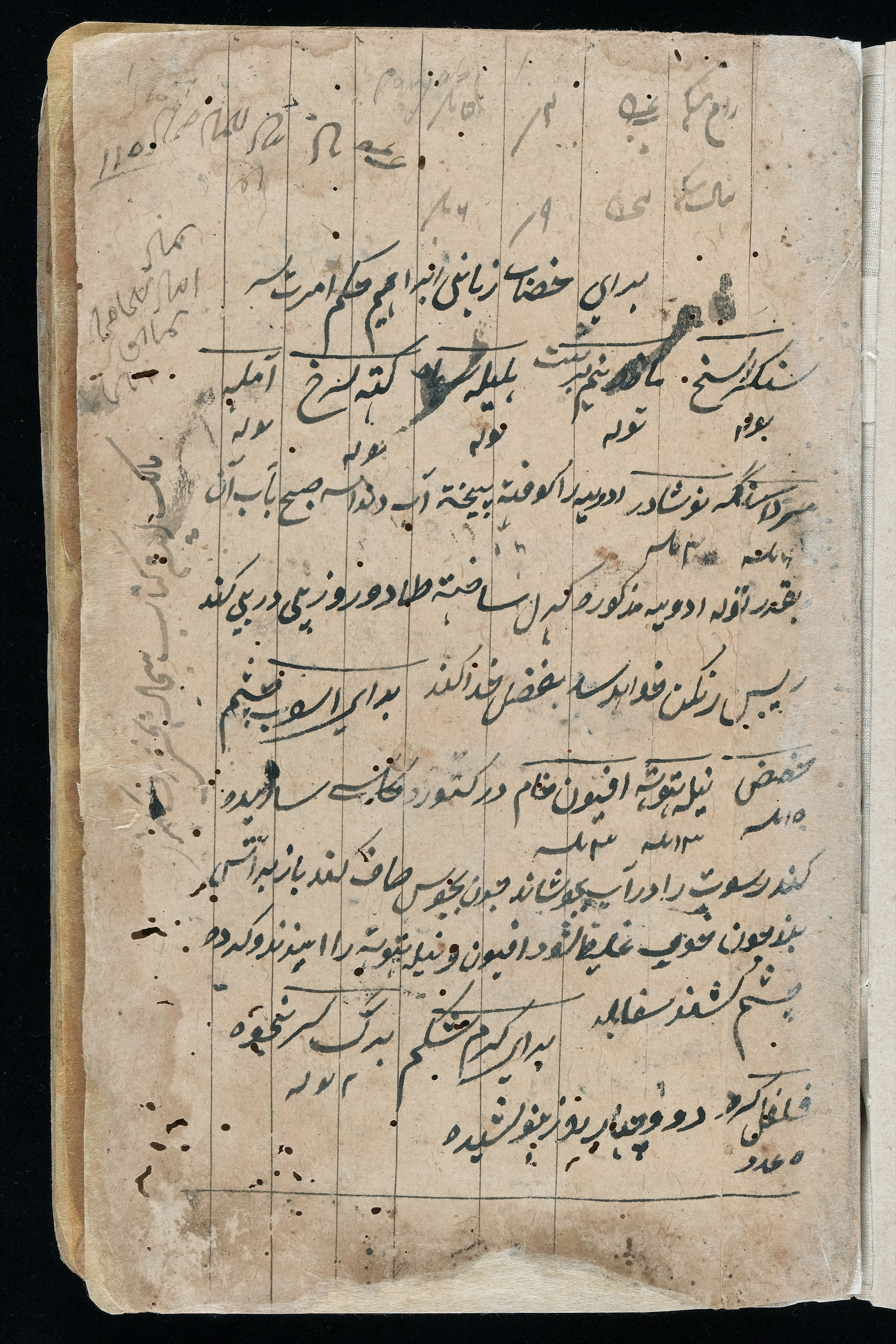 Panjabi 1 Asian Collection